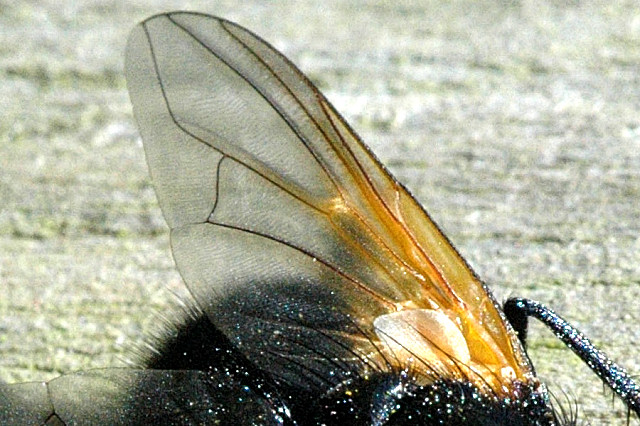 Picture taken in Commanster, Belgian High Ardennes . Species: Mesembrina meridiana, wing detail